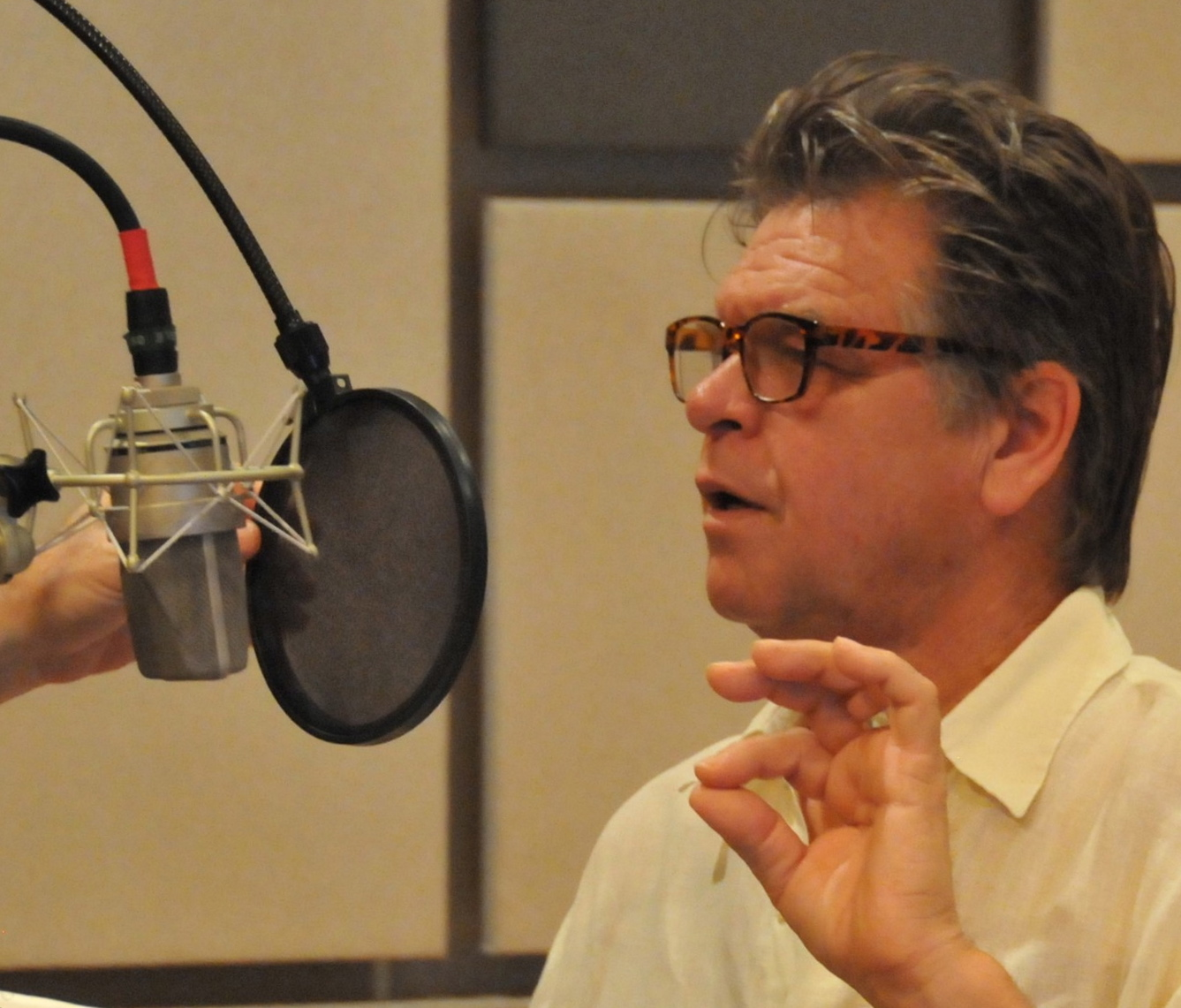 Patrick Fraley, at a teaching session.